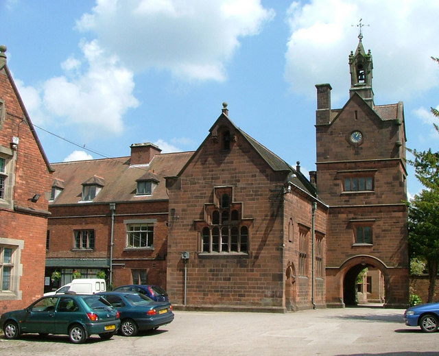 Westwood College, near to Longsdon, Staffordshire, Great Britain. The Old Hall